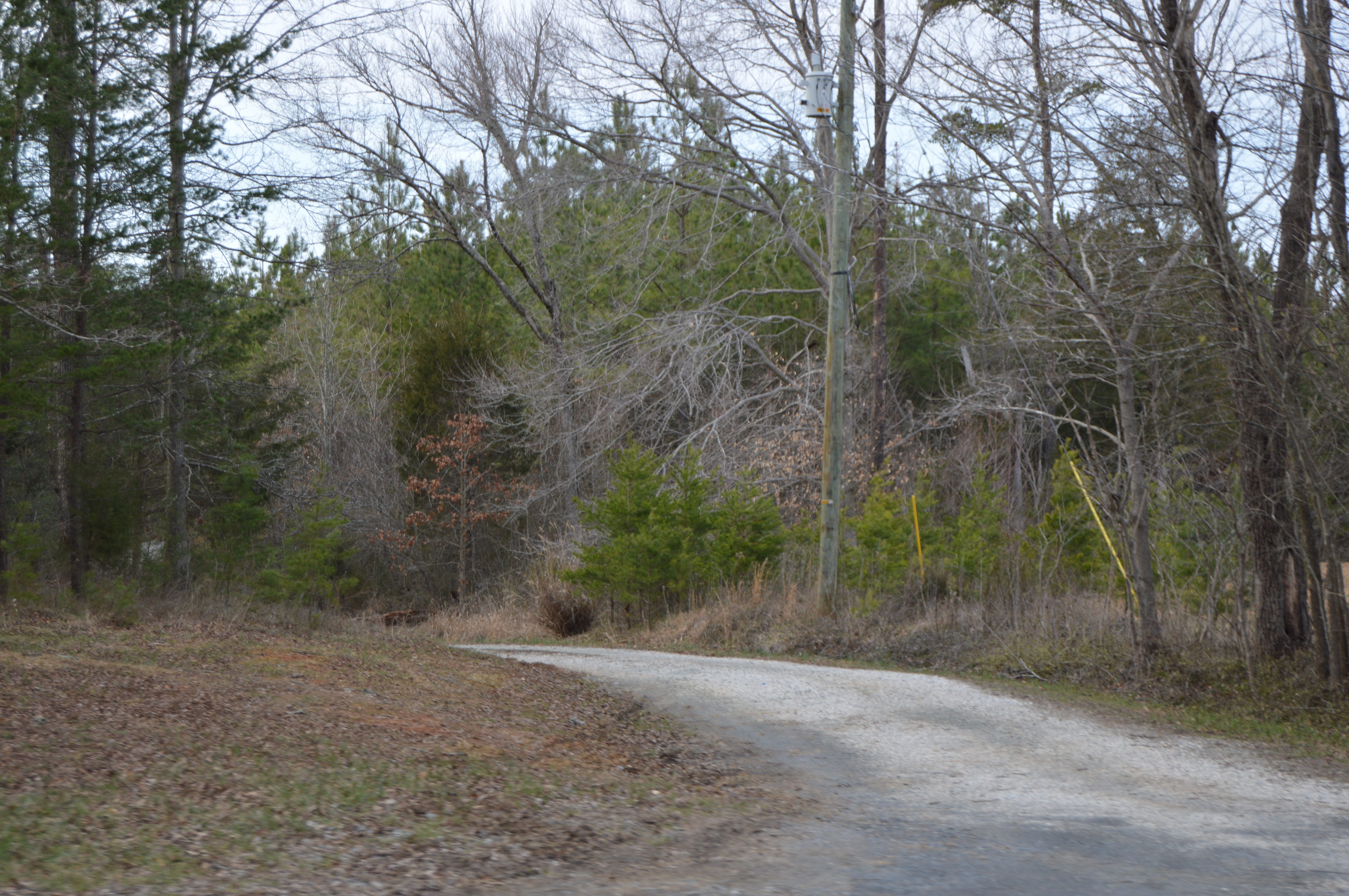 Driveway to the Gum Creek property, located at 1317 Stage Junction Road north of Columbia in Fluvanna County, Virginia, United States. The property is listed on the National Register of Historic Places.